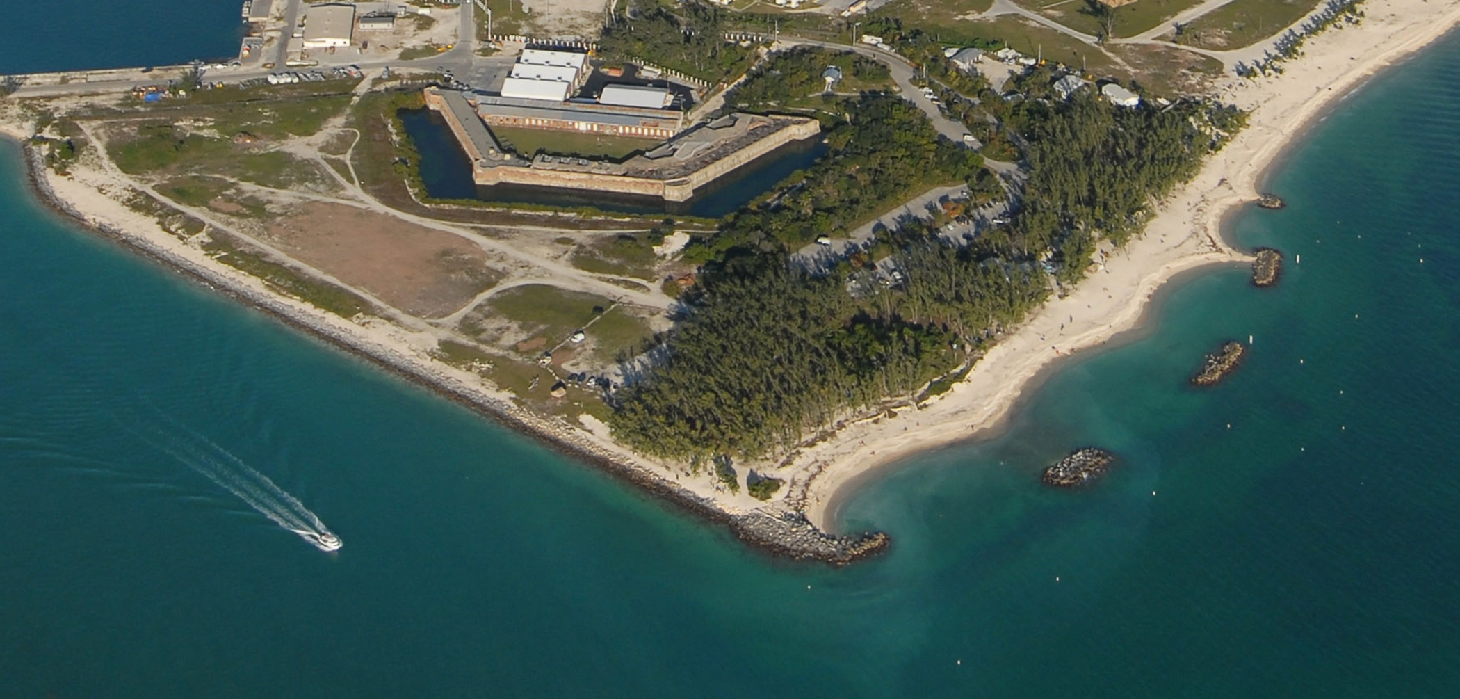 Aerial view of Fort Zachary Taylor State Park. Original Caption: Fort Zachary Taylor State Park in Key West, FL, is edged by turquoise blue waters, features the half-hexagon shaped, Civil War-era Fort Taylor surrounded by a moat, and is separated from a sandy beach and snorkeling by a wooded picnic area.